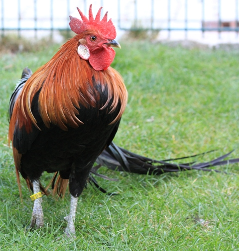 Black Breasted Red Onagadori, breeder Diandra Drills